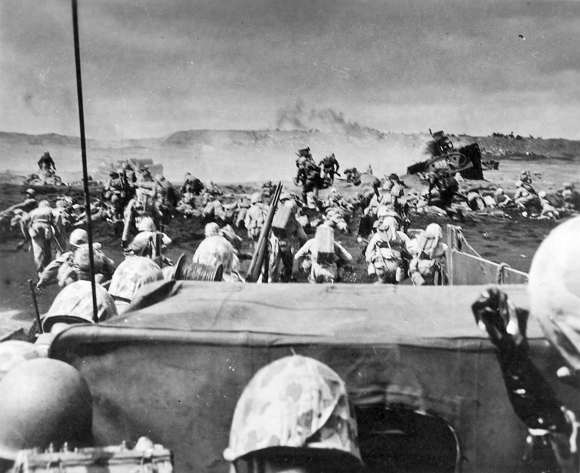 Amphibious assault on Iwo Jima, a DR-8 wire communications reel is at left-center.